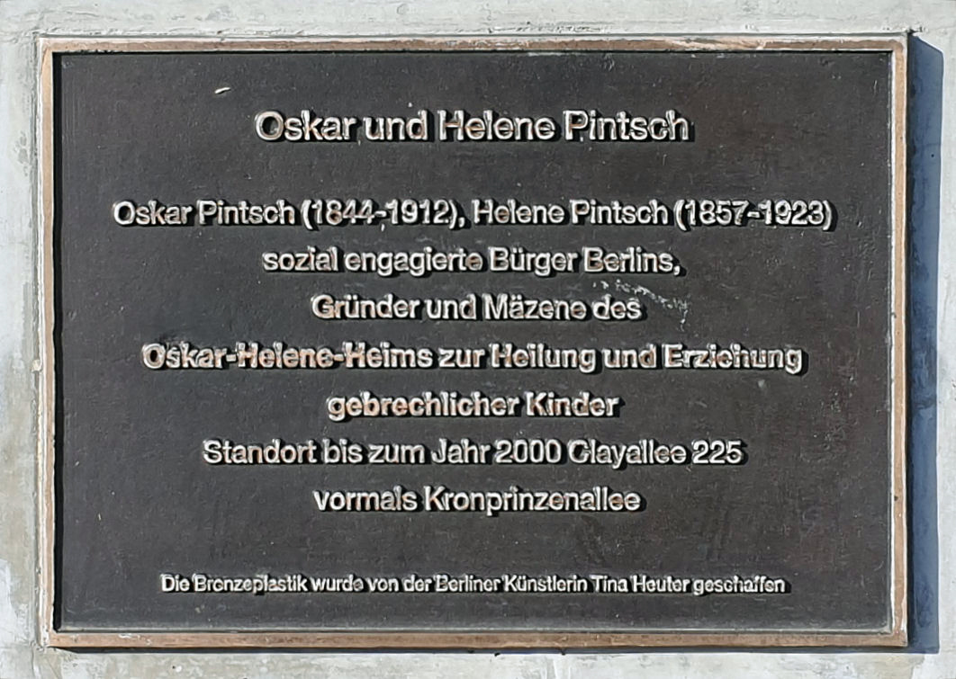 Memorial plaque, Helene Pintsch and Oskar Pintsch, Clayallee 225, Berlin-Dahlem, Deutschland